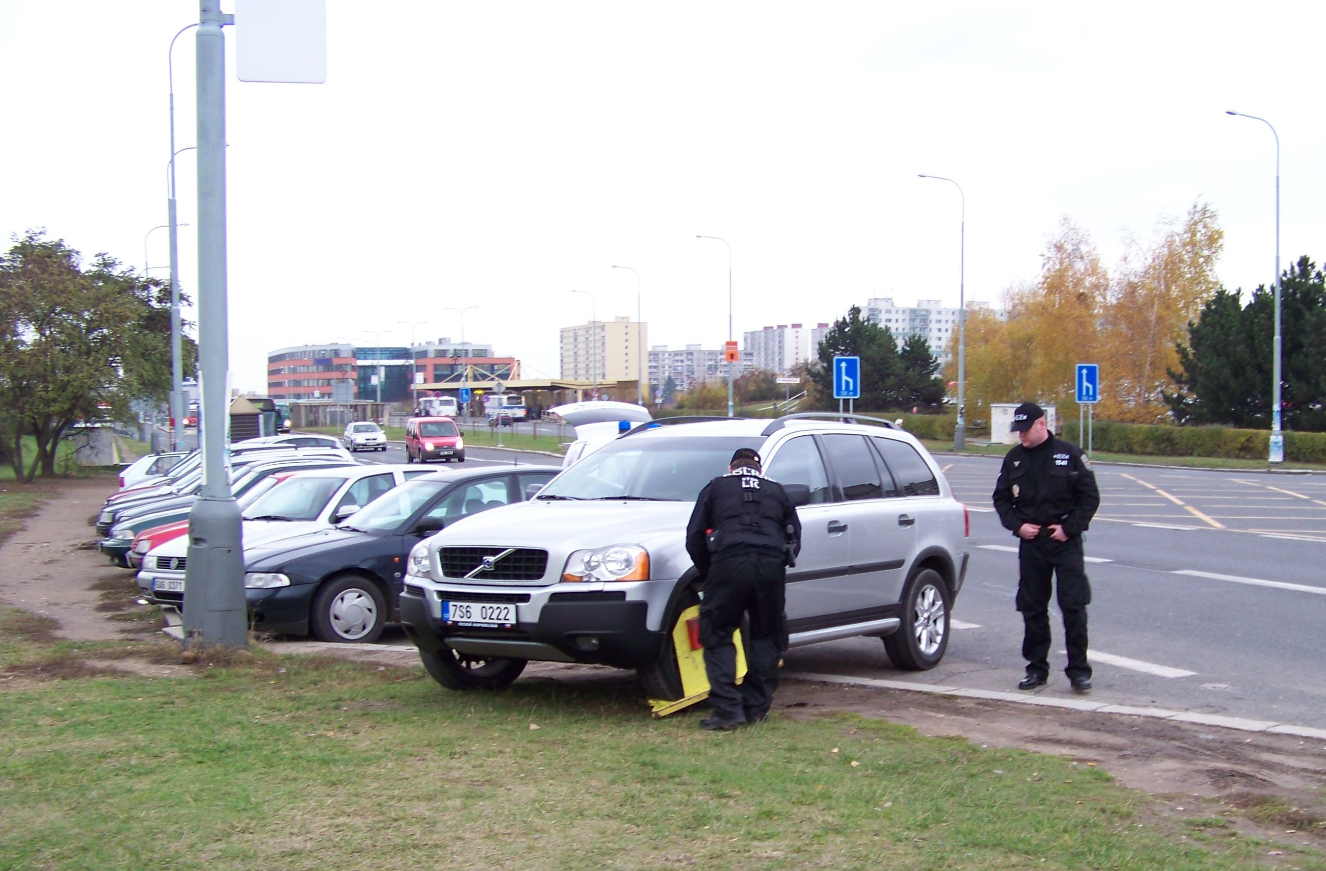 Chodov, Prague, the Czech Republic. Chilská Street, policemen are removing an immobilizer of car.